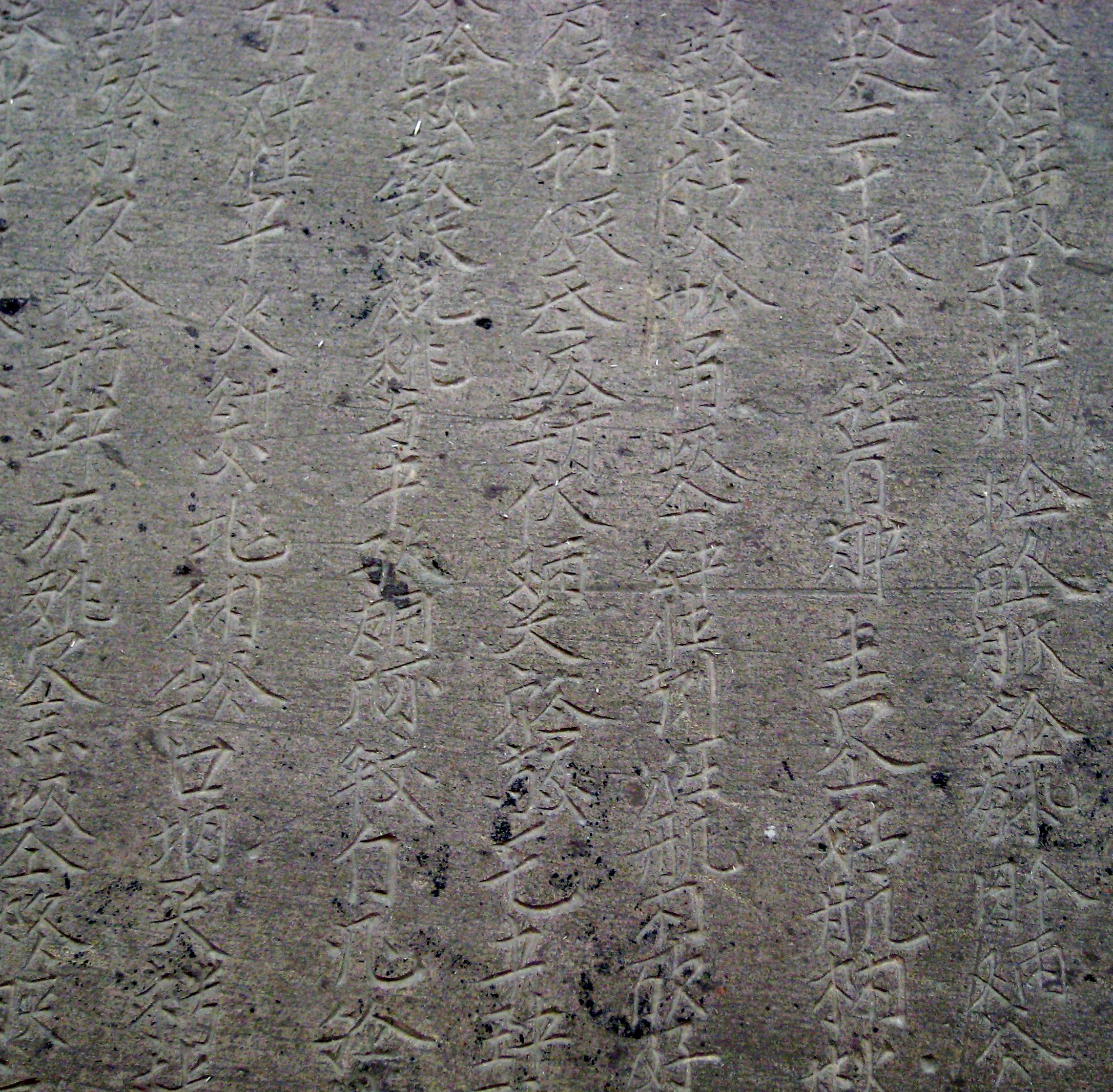 Detaile of the Khitan Small Scripy inscription on the Epitaph of Yelü Dilie 耶律迪烈 (1026-1092).